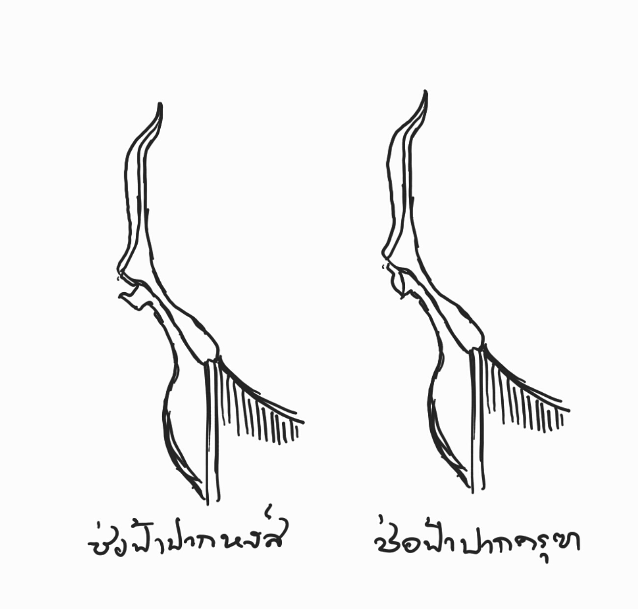 Thai Temple (Wat) Architecture sketch of the part called "Chofa" (ช่อฟ้า) with 2 main types: Pak Hong (ช่อฟ้าปากหงส์); left Pak Kruth (ช่อฟ้าปากครุฑ); right